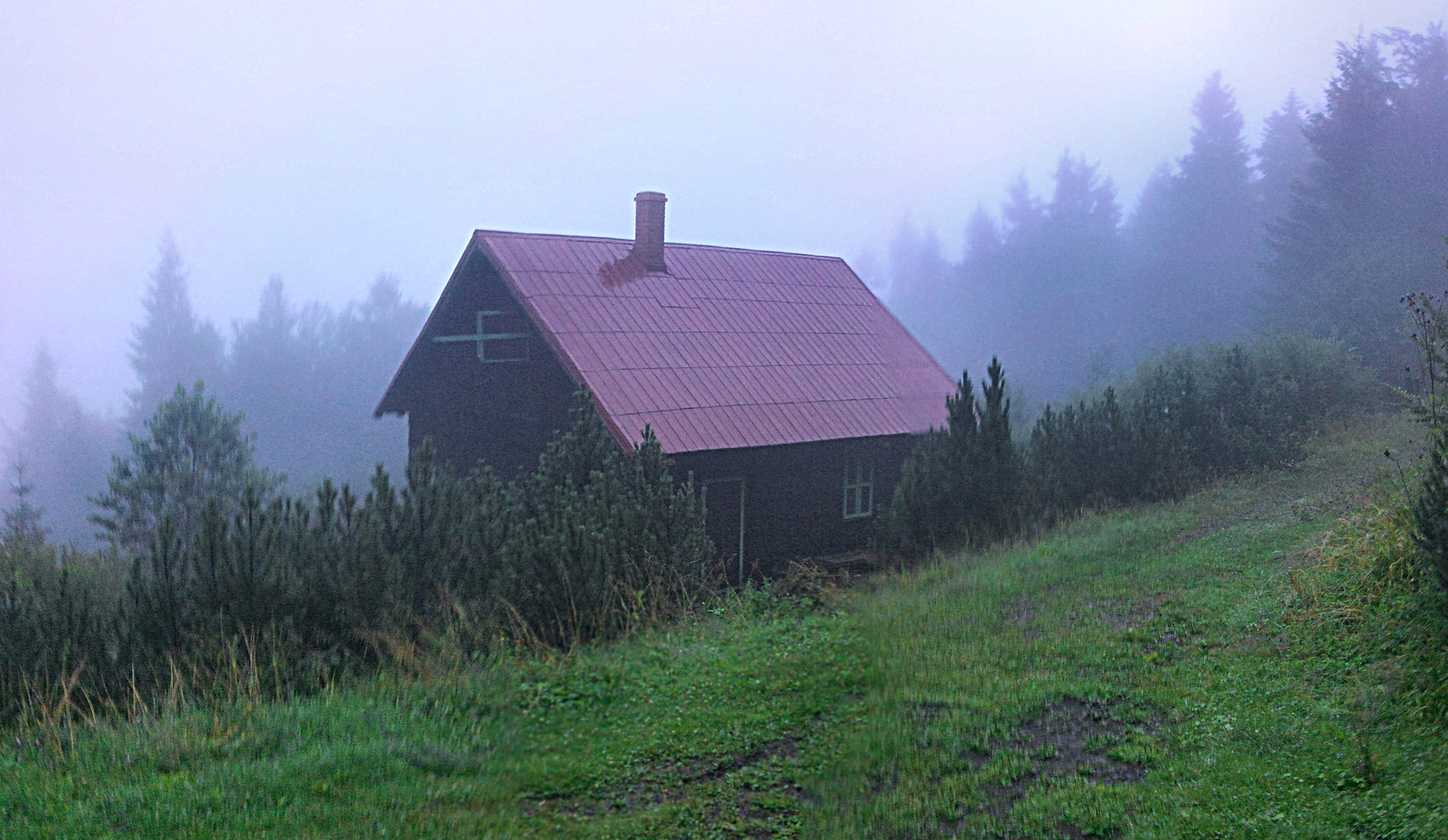 Leopoldka cottage between Velká Stolová and Malá Stolová in Beskids